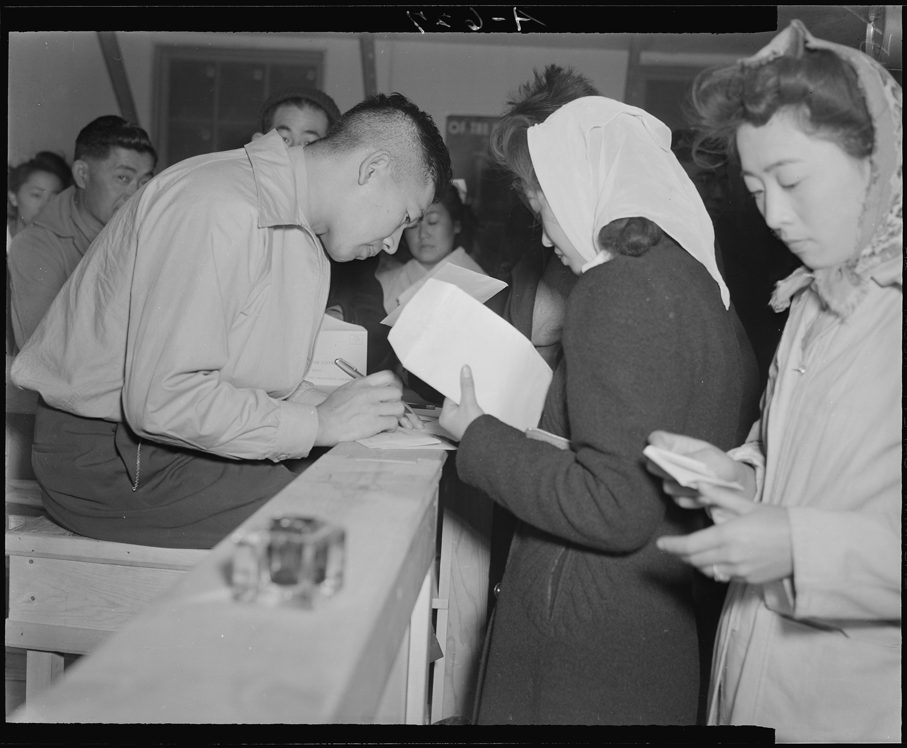 Scope and content: The full caption for this photograph reads: Tule Lake Relocation Center, Newell, California. Absentee voters of Japanese descent getting ballots and having them notarized.